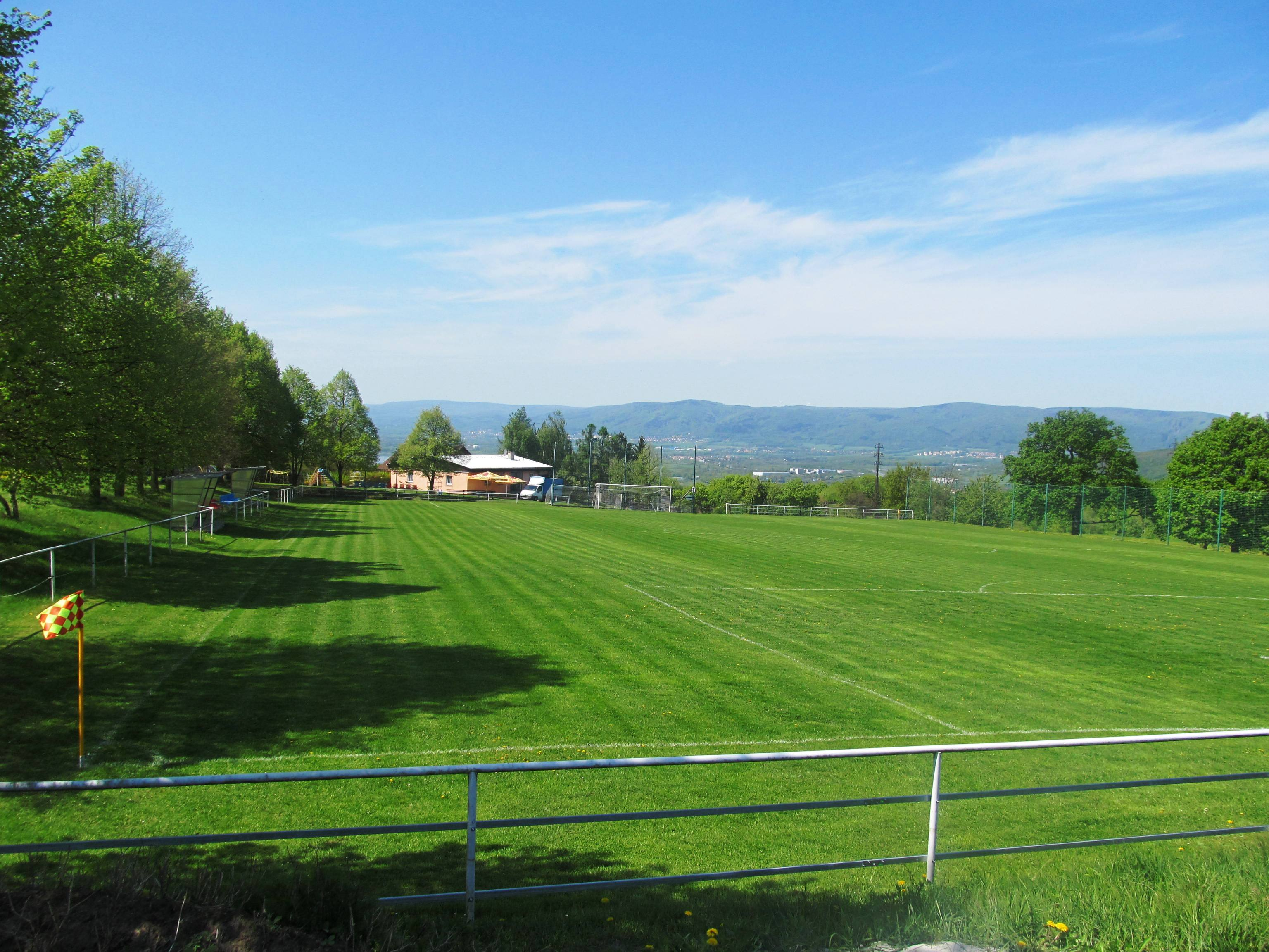 Football field of SK Hostovice